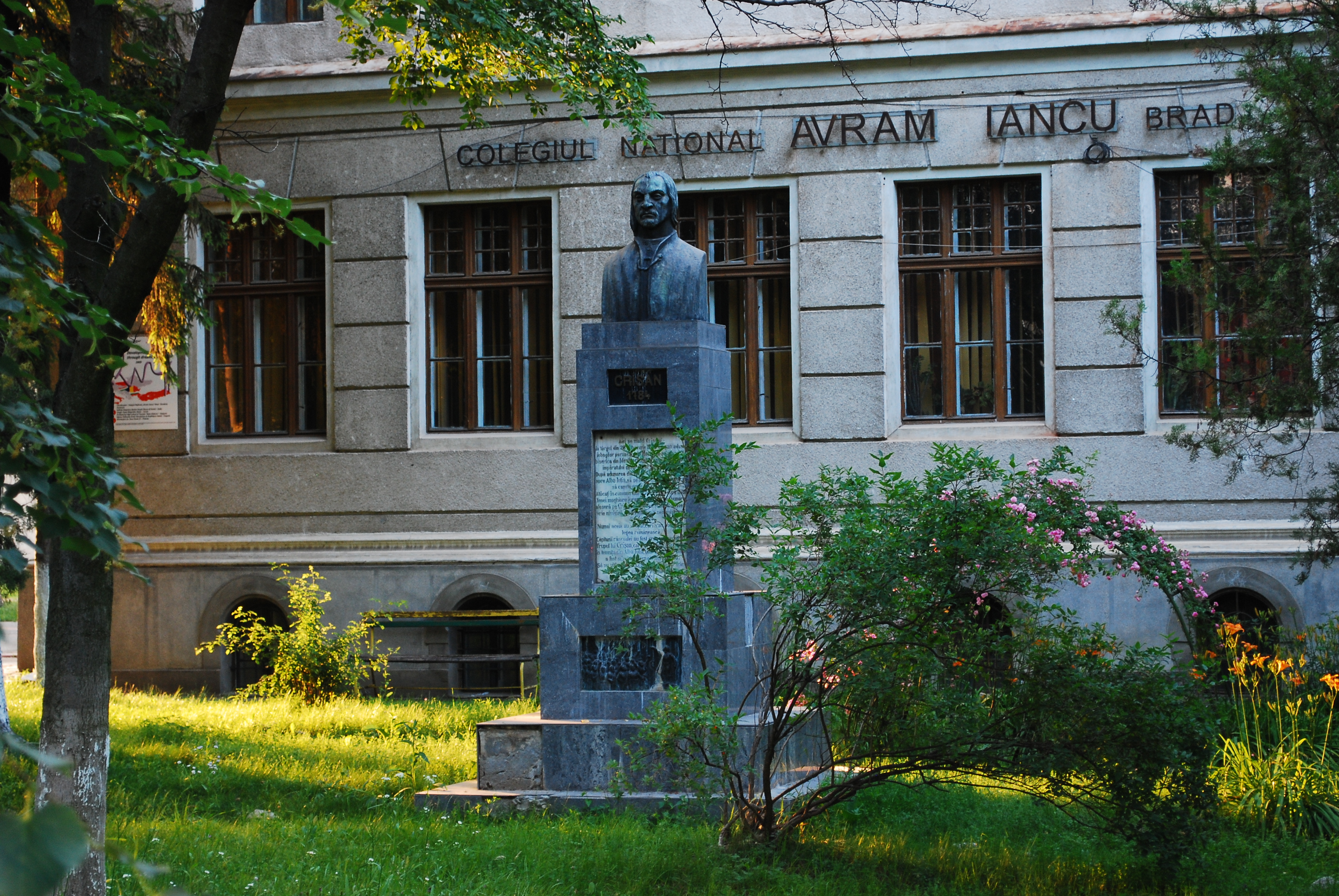 Statue of Crişan in the yard of Avram Iancu high school, Brad, Hunedoara County, Romania